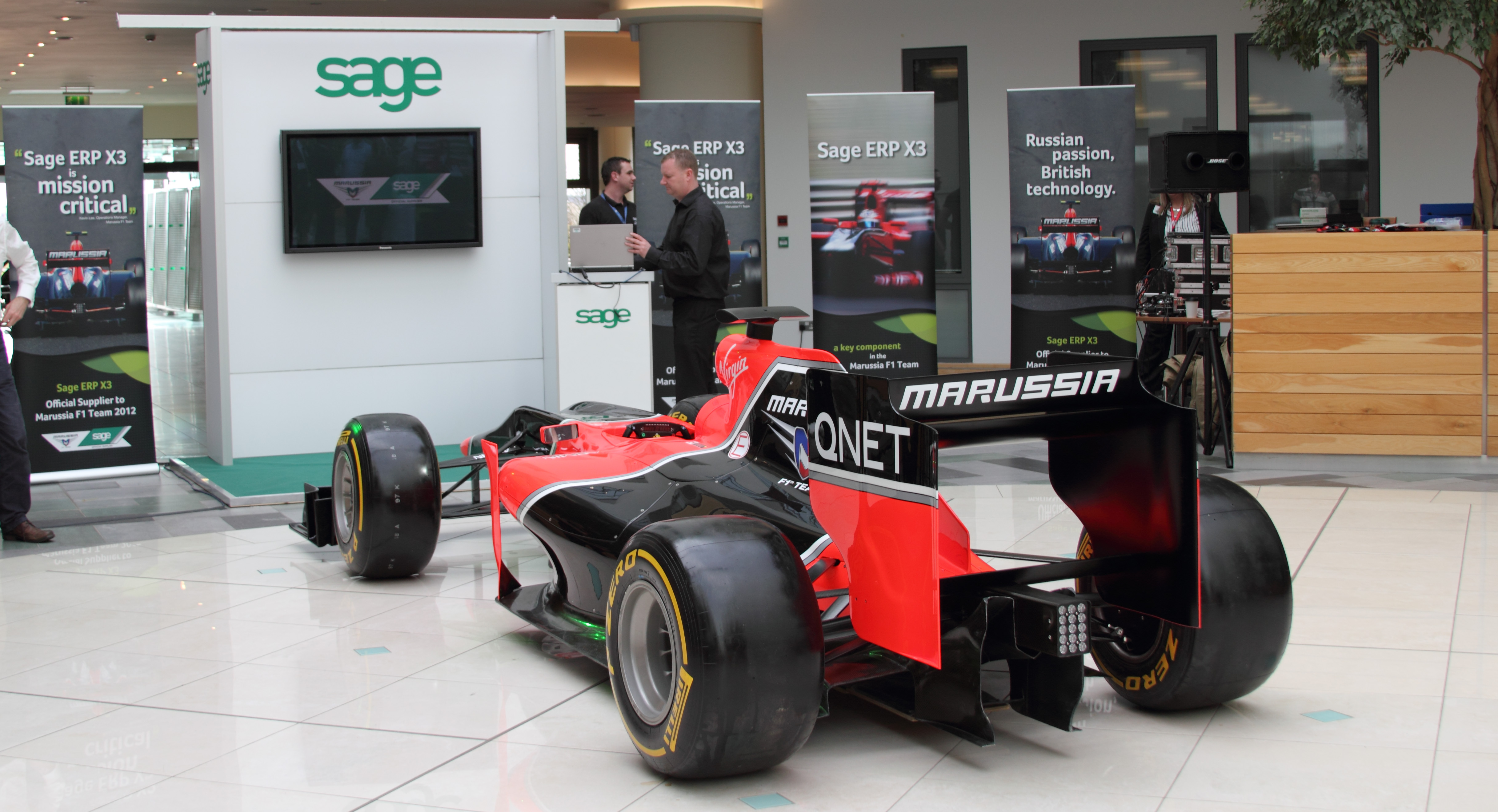 A Marussia F1 promotional vehicle with paintwork similar to the MR01 2012 Formula One car. Pictured here at a promotional event for one of their official suppliers, Sage Group, Newcastle upon Tyne, UK.